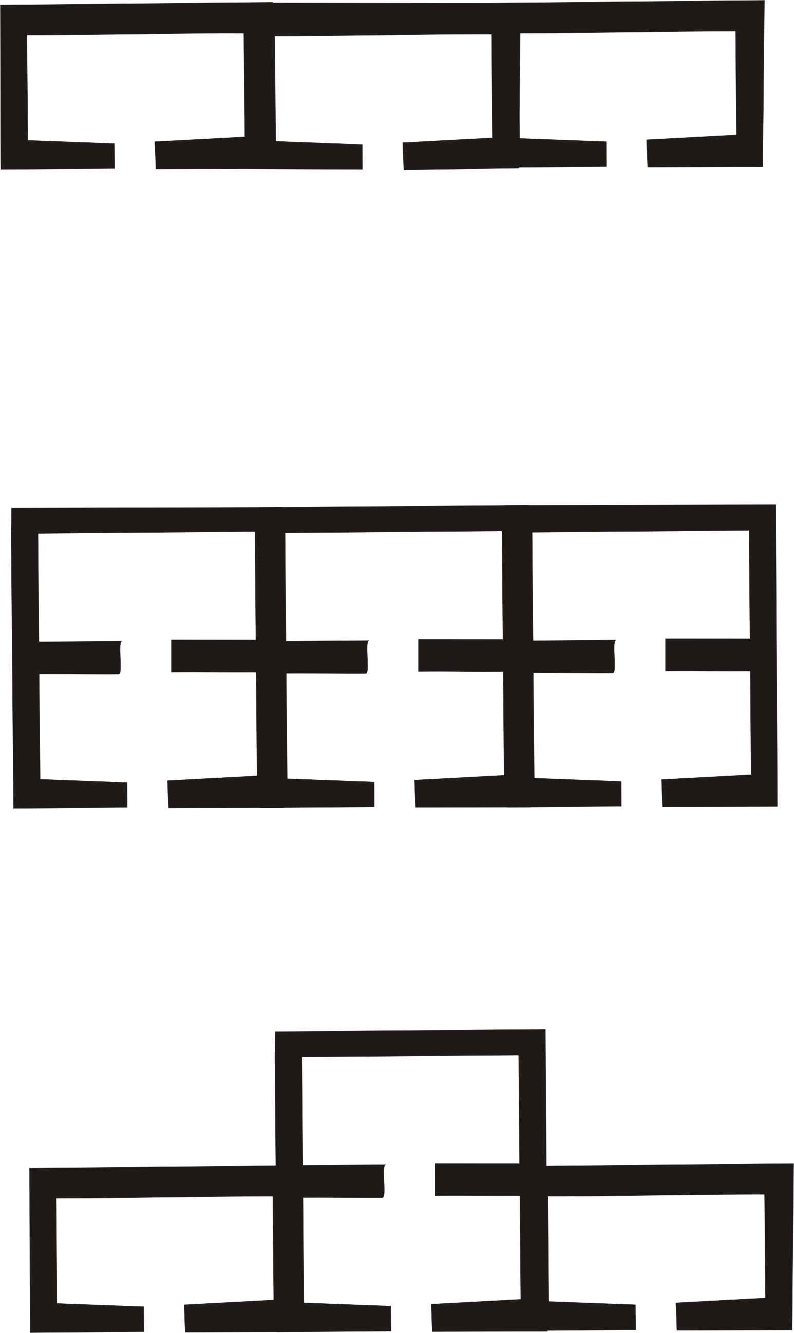 Simple Puuc buildings.